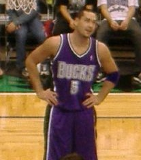 Milwaukee Bucks player Josh Davis in a 2005 preseason game.